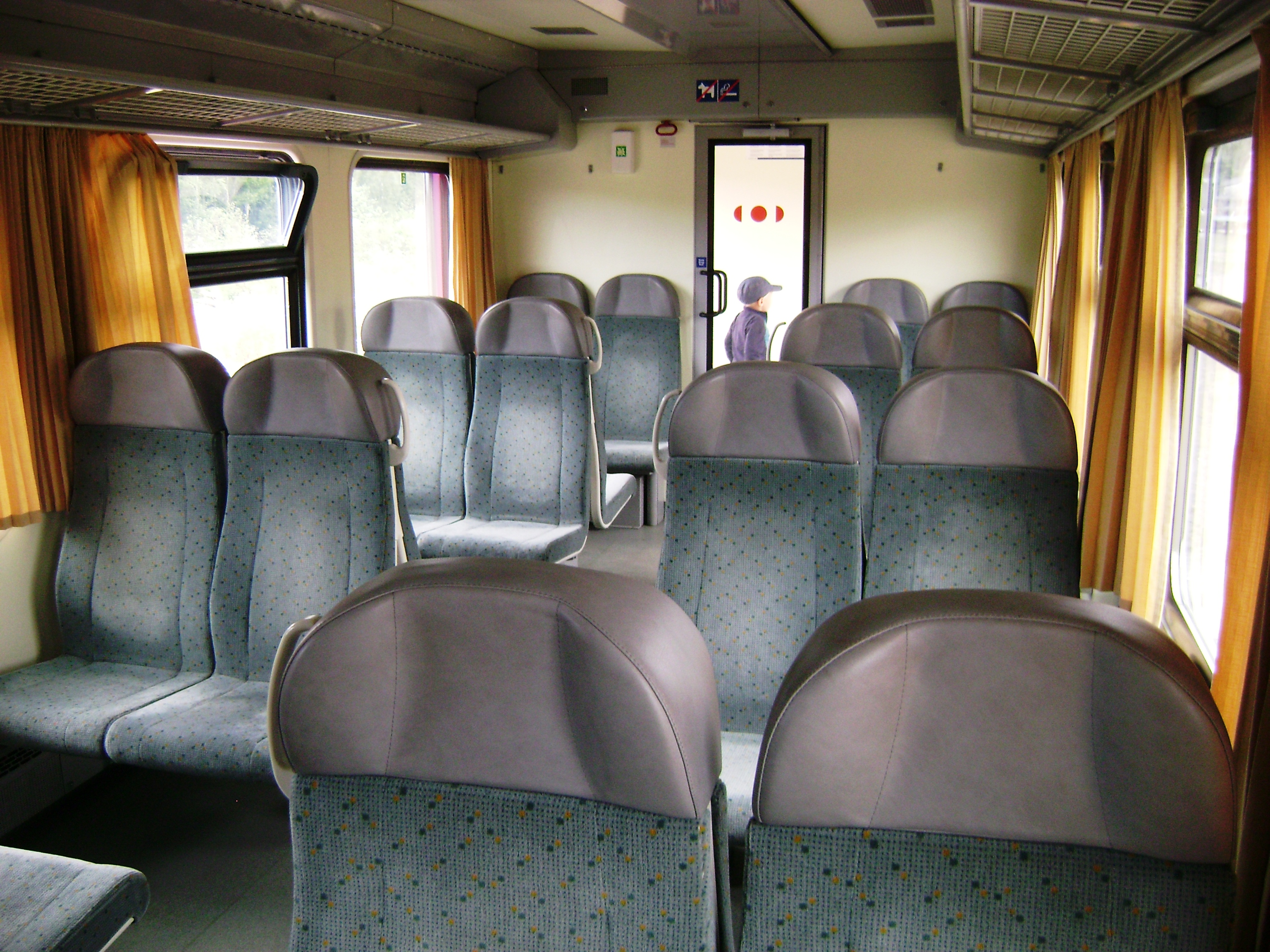 Middle passenger cabin section of class Dm12 DMU.